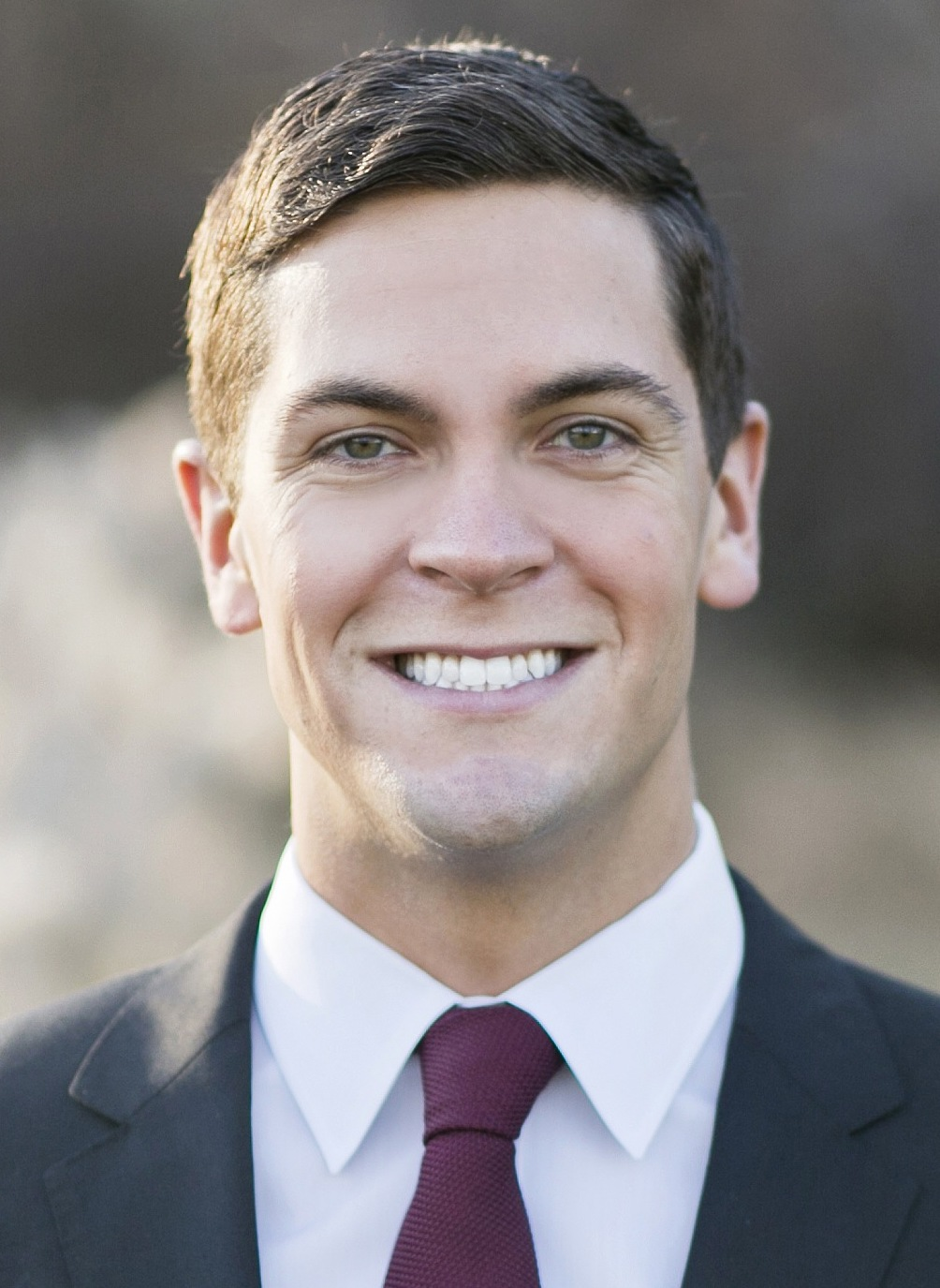 Sean Eldridge